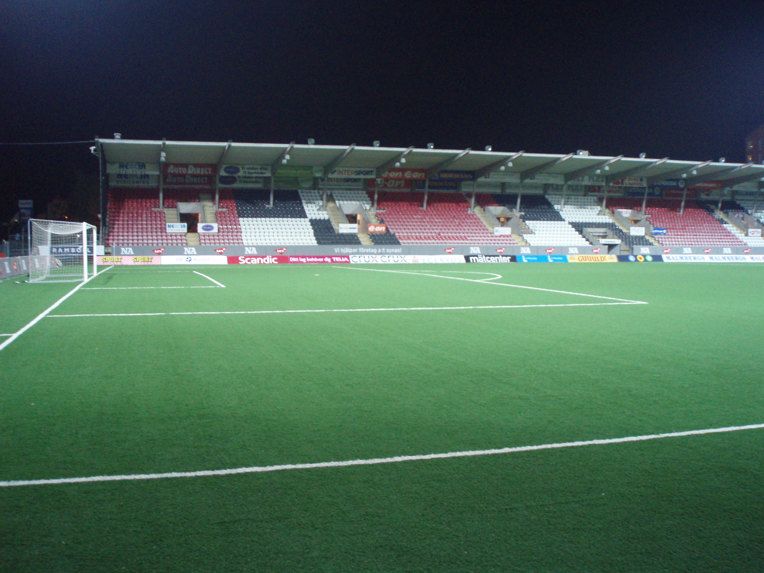 Behrn Arena, Örebro, Sweden